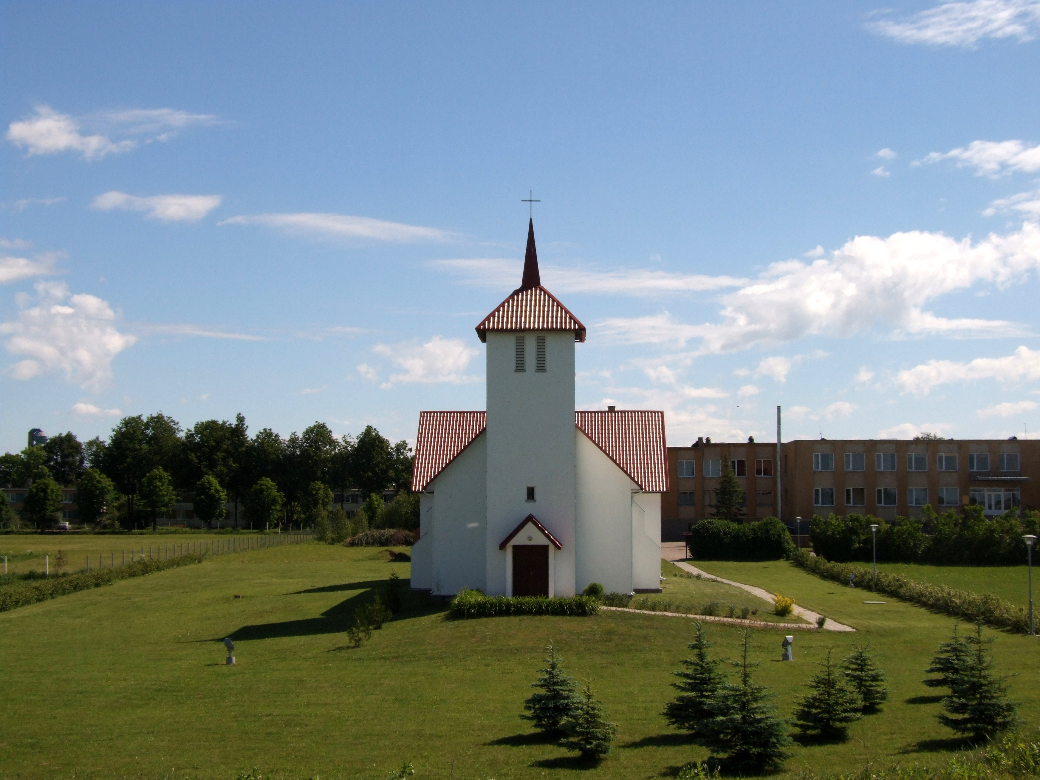 Salgale Lutheran church in Emburga